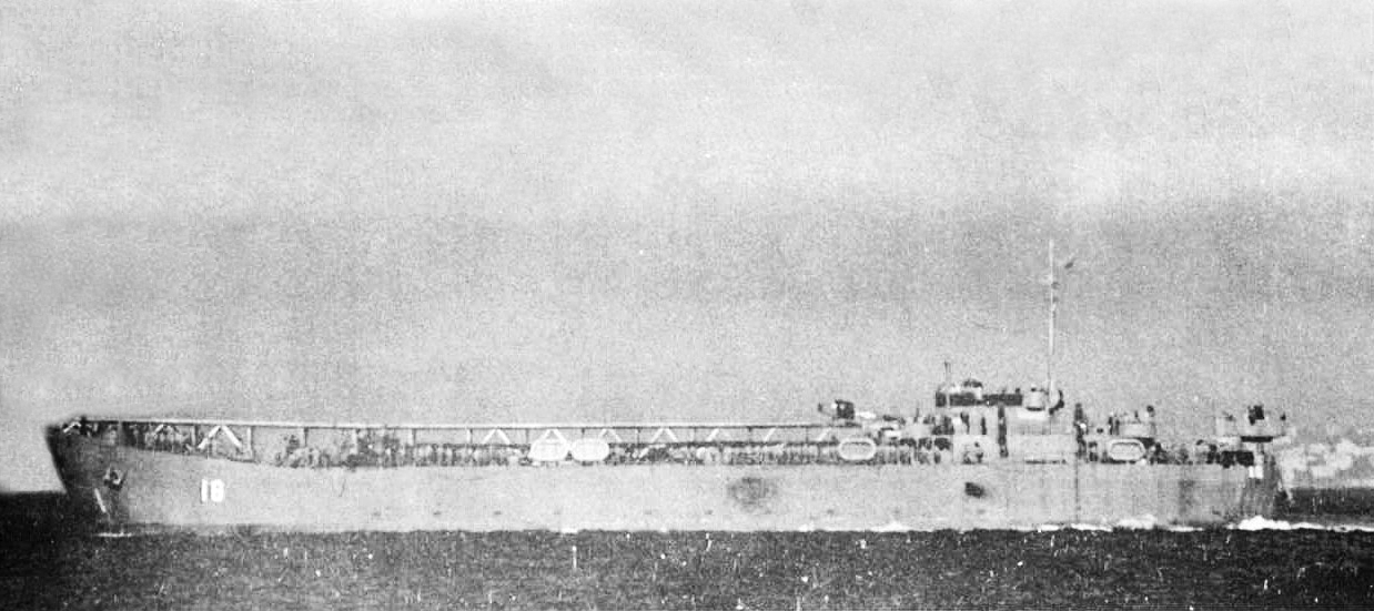 The U.S. Navy tank landing ship LST-16 underway in the Mediterranean area, circa 1943. Note that the ship was fitted with a 67 m x 5 m flight deck with a USAAF Piper L-4 Grasshopper observation plane ready for take-off.